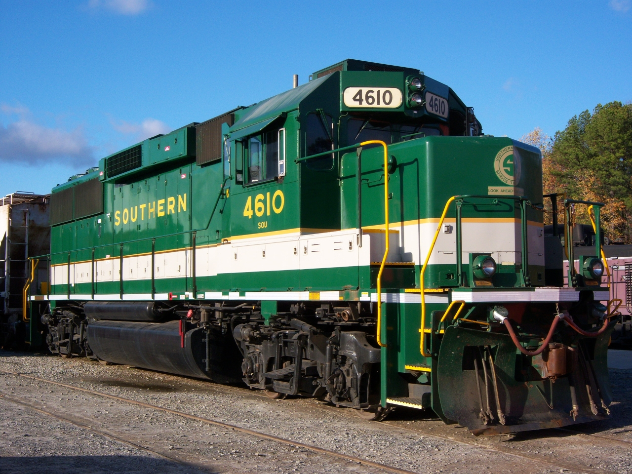 Southern Railway 4610, an EMD GP59, at the Southeastern Railway Museum (SERM) in Duluth, Georgia.